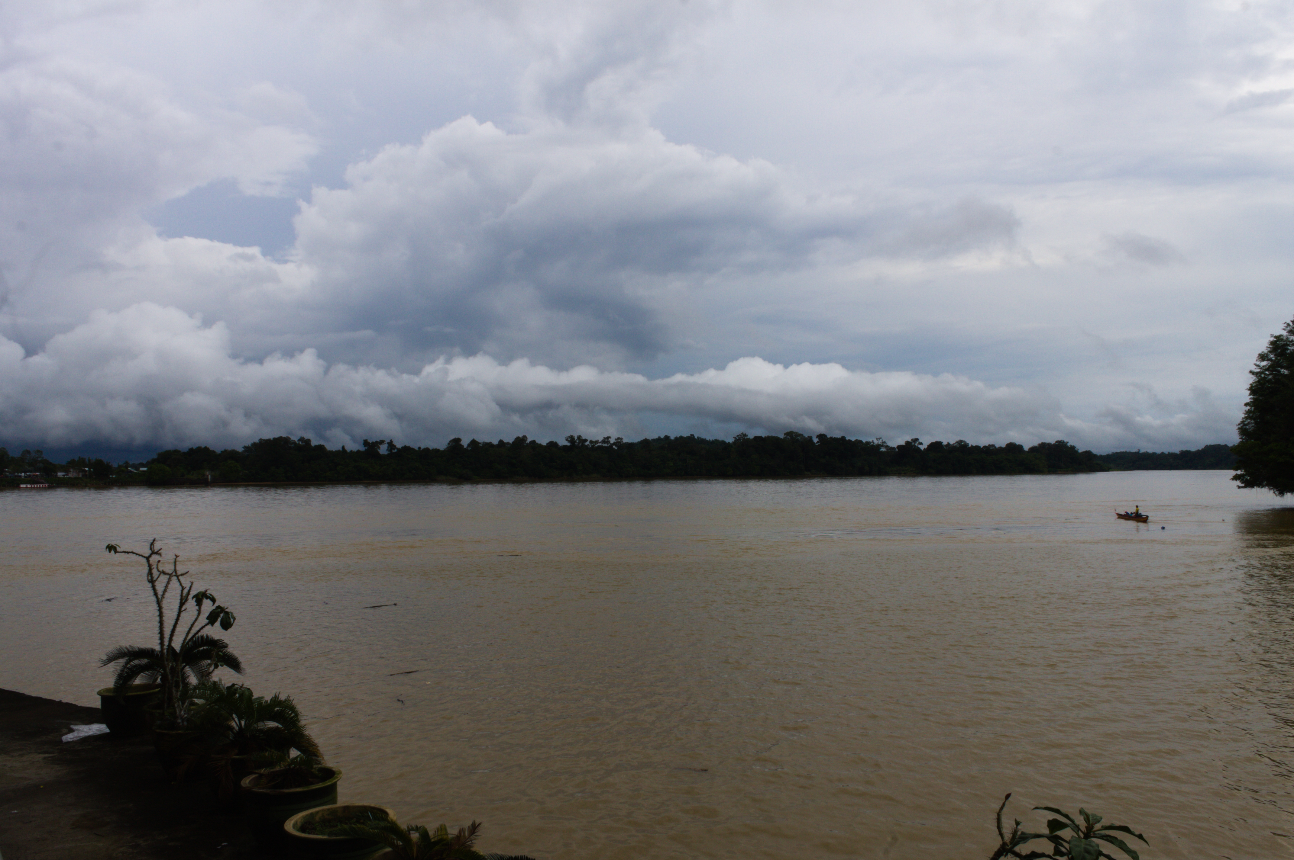 Intersection of Kanowit river (lower right) and the Rajang river (right to left)